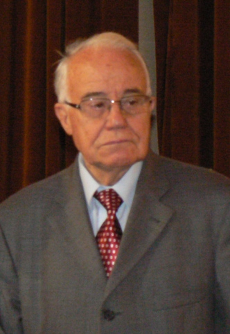 Bulgarian jurist, corresponding member Alexander Yankov after the reception of the memorial sign "Marin Drinov" from the Bulgarian Academy of Sciences, 20 May 2011